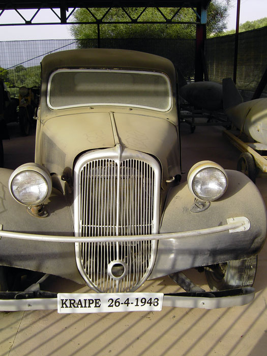 Car from same type as the one which has been abducted with Kreipe